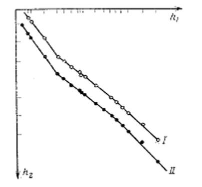 Tatarstan 3 wells